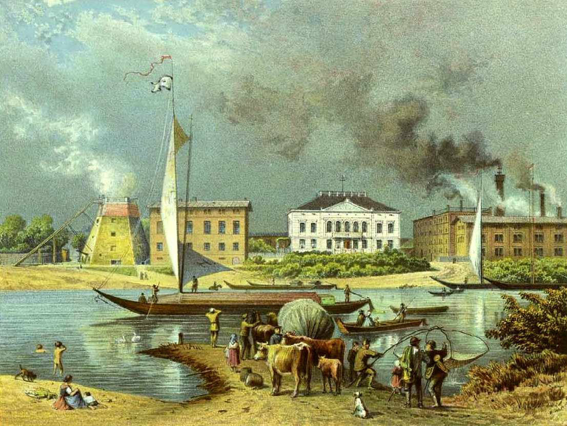 Former manor in Kopanie